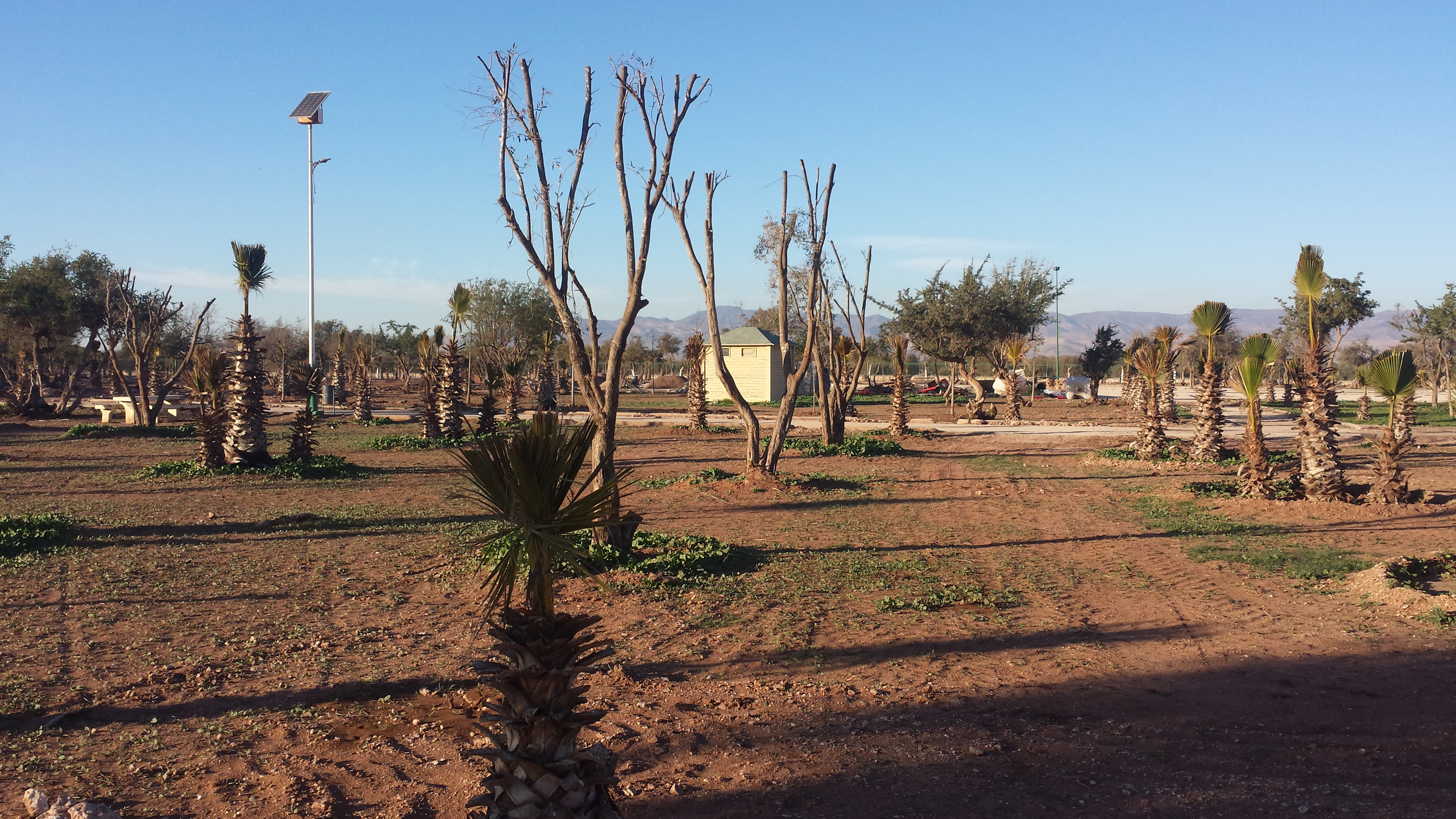 This is an image with the theme "Africa on the Move or Transport" from: Morocco